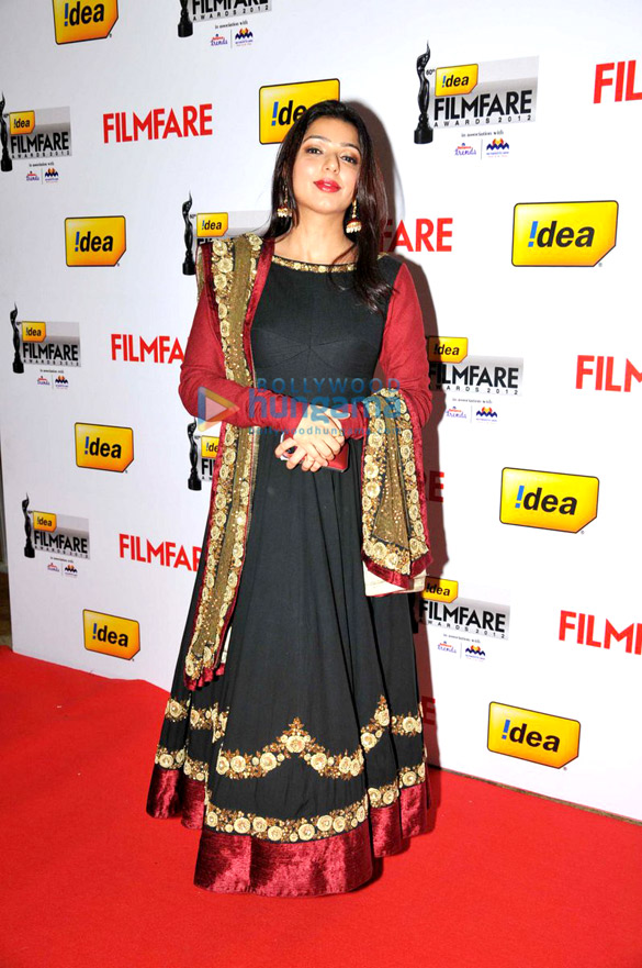 Bhumika Chawla at the 60th Filmfare Awards South